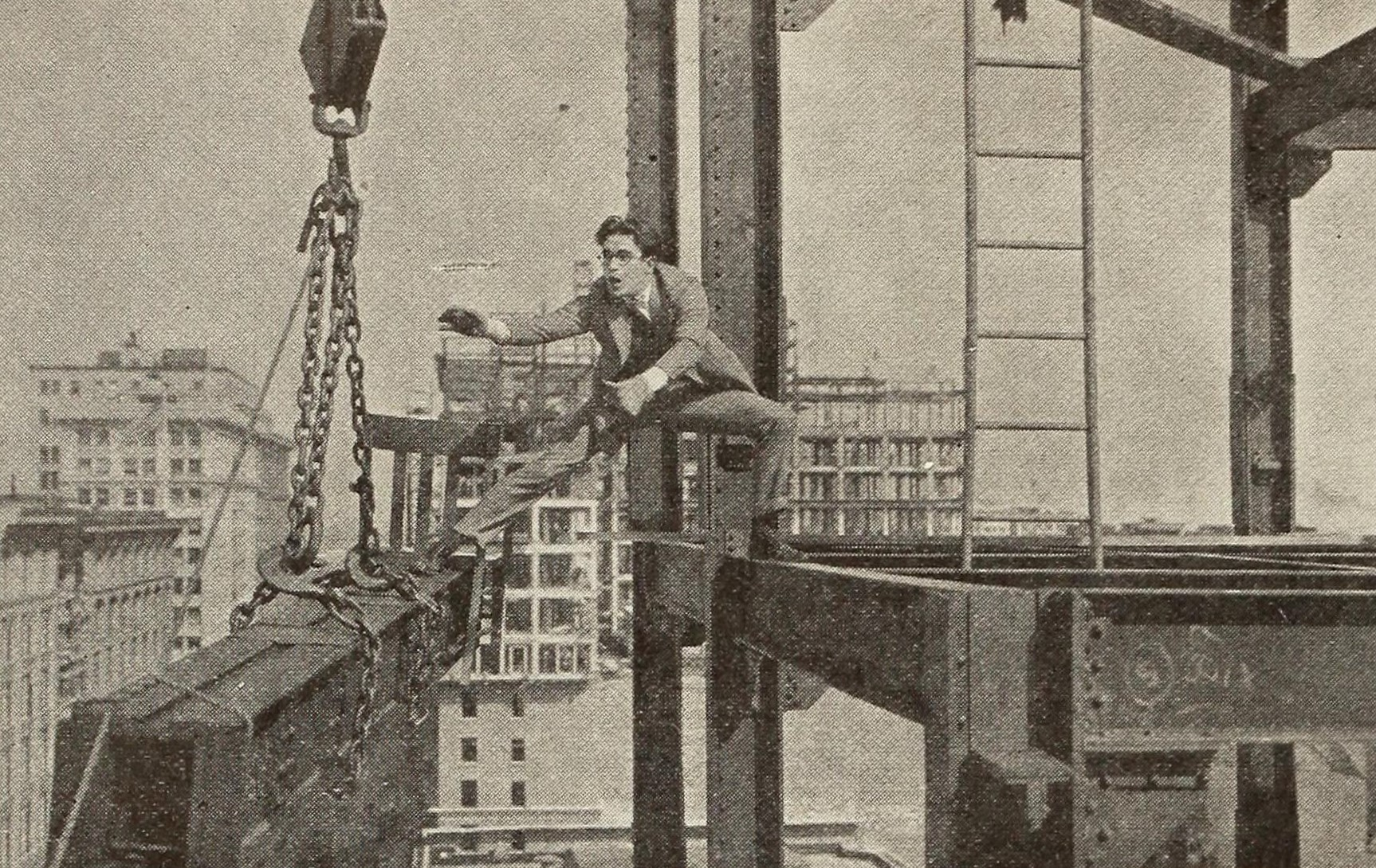 Harold Lloyd in Never Weaken, Exhibitor's Trade Review, October 8, 1921.